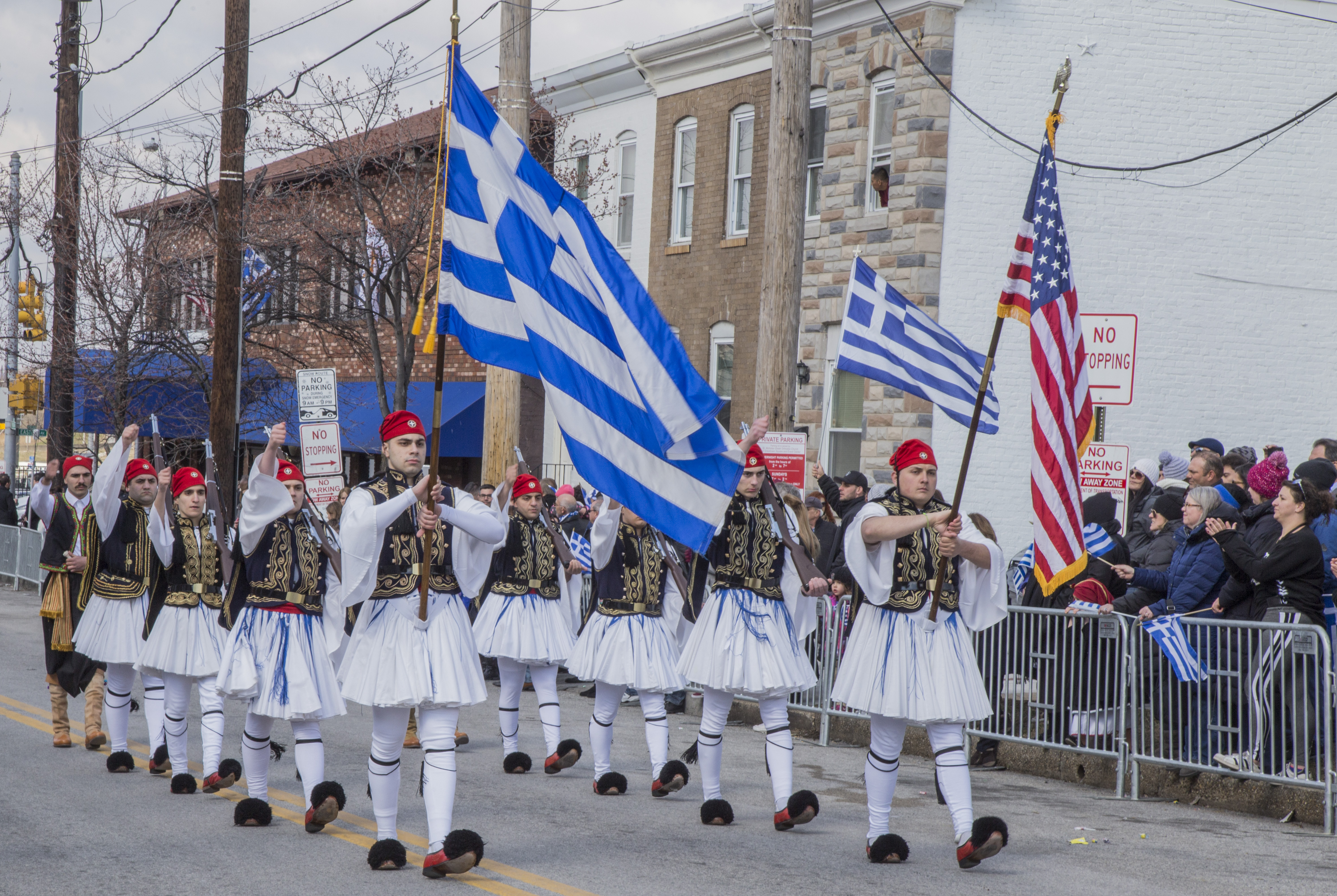 Photo by Katie Simmons-Barth 2018 Greek Independence Day Parade Baltimore